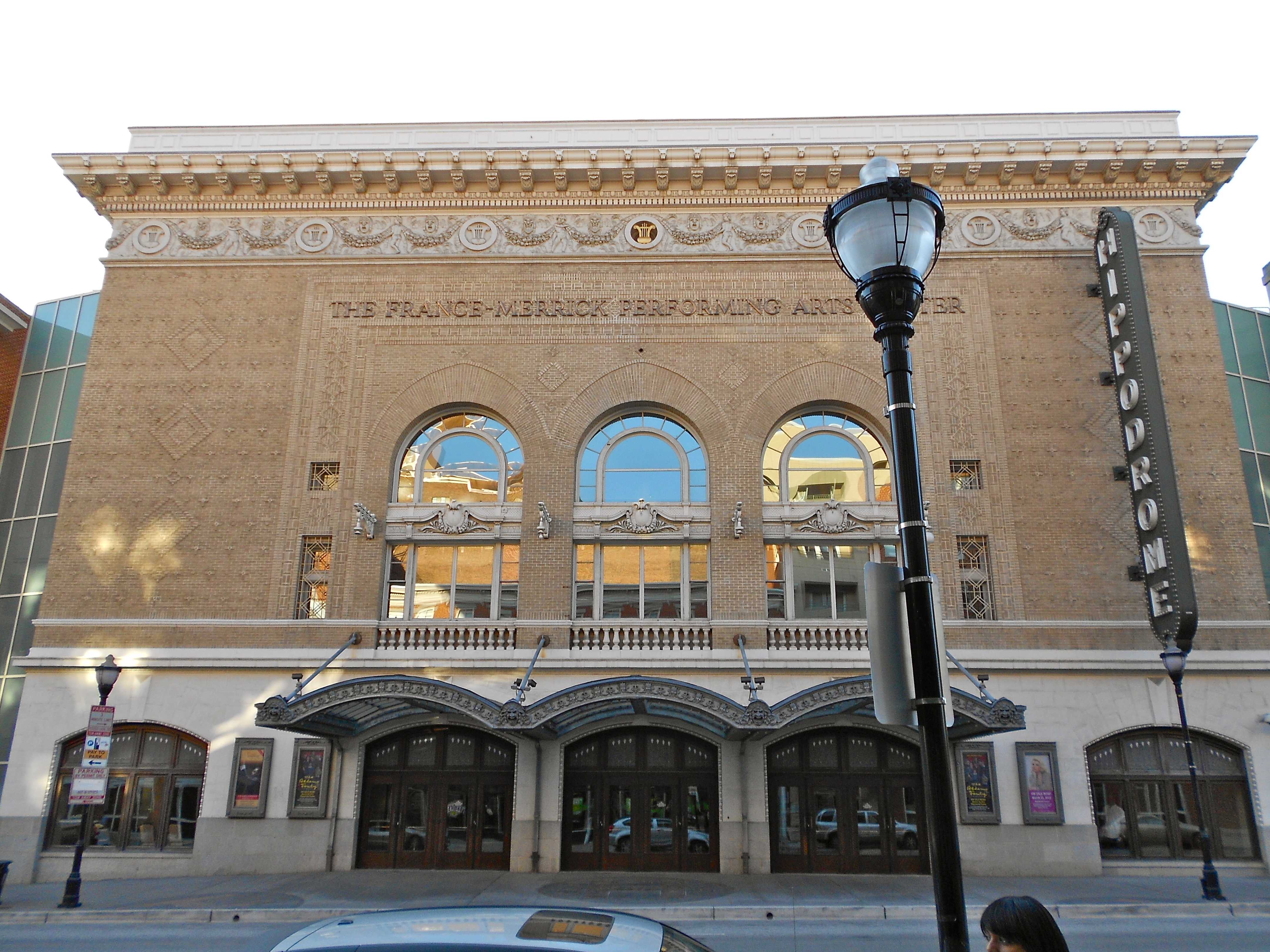 Hippodrome on the NRHP since January 14, 2000. At 12 N. Eutaw St. in central Baltimore, Maryland.